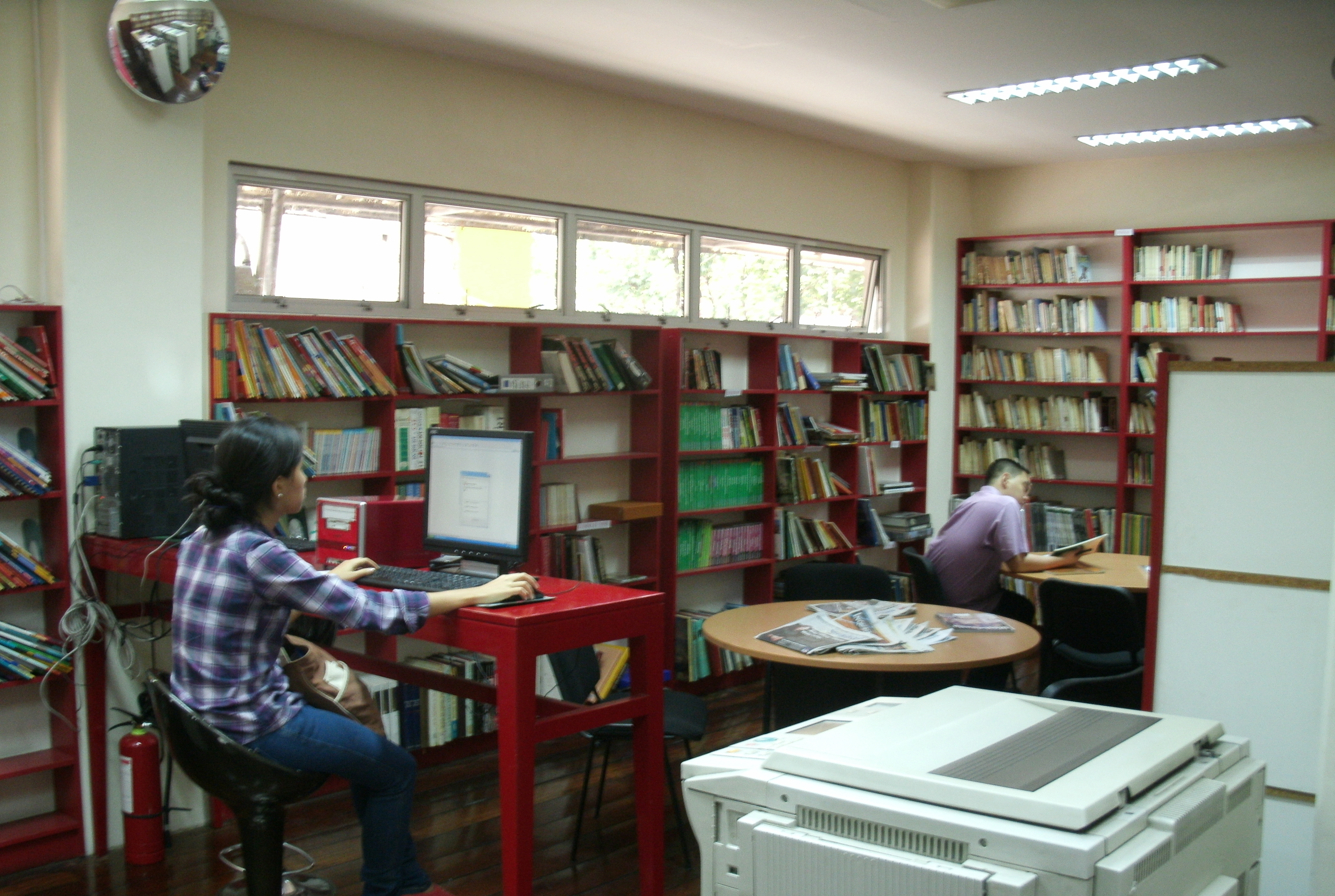 The Library of Alliance Française de Manille.